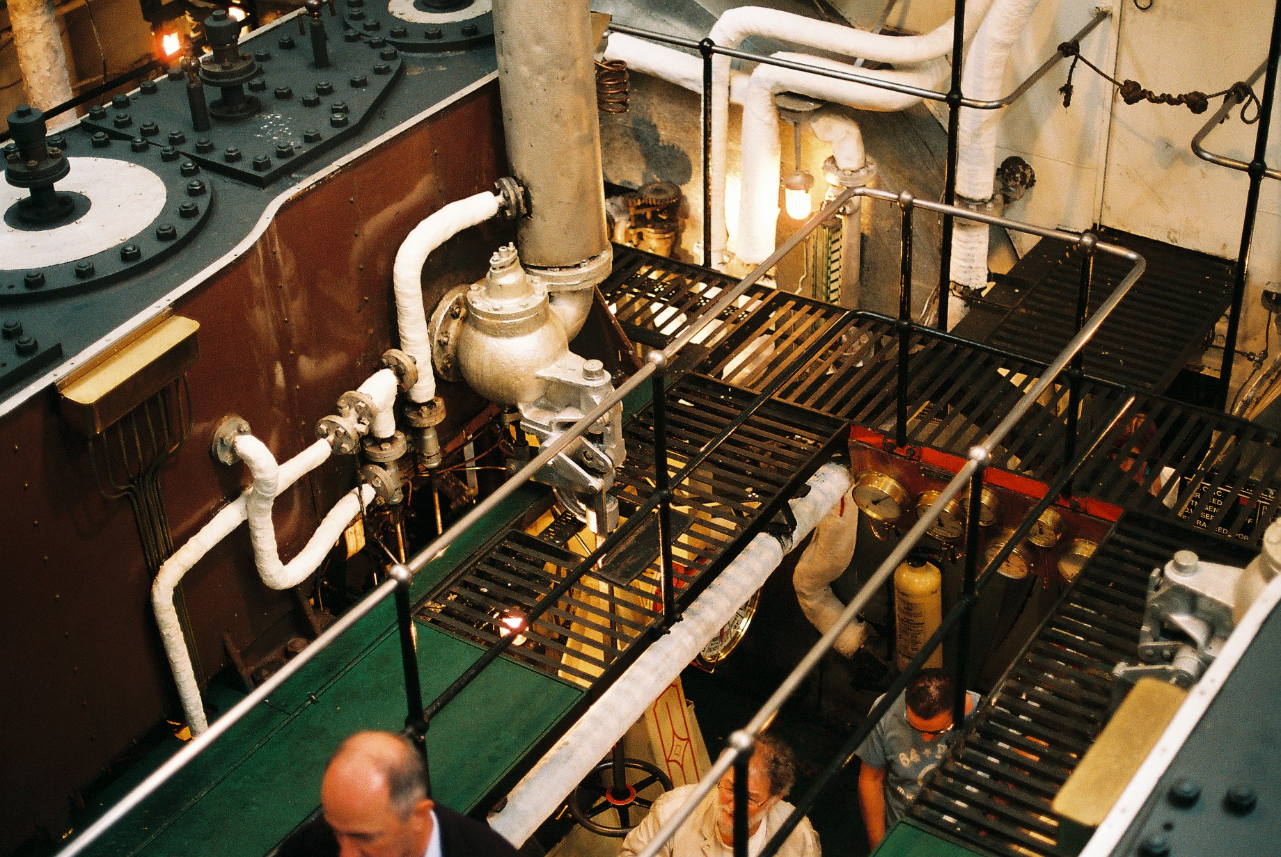 The General Cargo-Passenger Steamer SS Shieldhall was built in 1954 as a "Clyde sludge boat" by Lobnitz & Co. of Renfrew who also constructed the two triple expansion steam engines. The Shieldhall is now operated by the Solent Steam Packet Limited preservation society to run trips down the Solent from from Southampton. As seen in the photograph, passengers can go down into the engine room between the two steam engines. On the green engine casing to top left the tops of two of the three cylinders are visible. IMO Number: 5322752 MMSI Number: 232003964 Callsign: GNGE Length: 82 m Beam: 13 m photograph taken by dave souza during a brief return visit of the Shieldhall to the Firth of Clyde in July 2005. Any re-use to attribute the work to dave souza and show the link